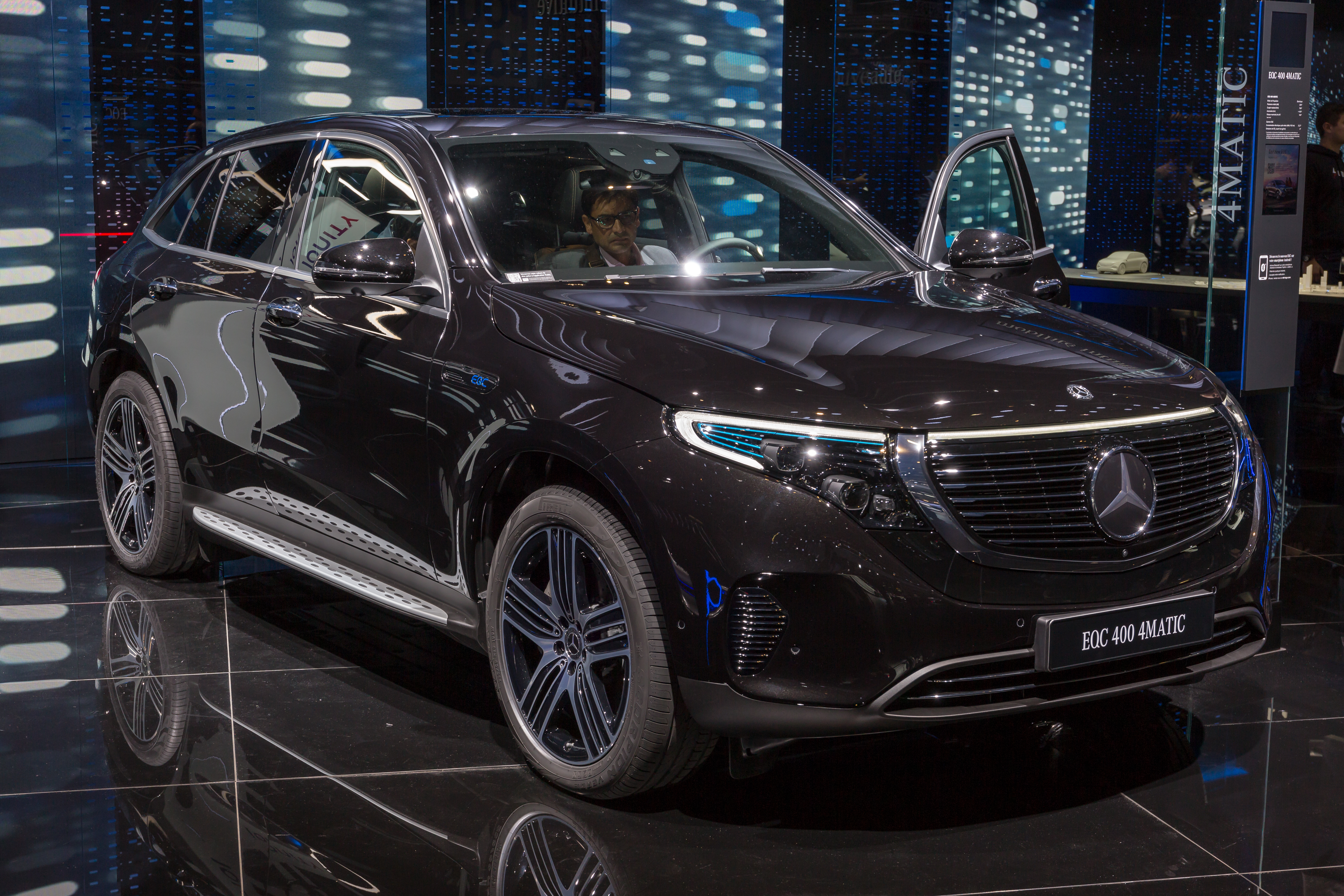 Mercedes-Benz EQC 400, Paris Motor Show 2018